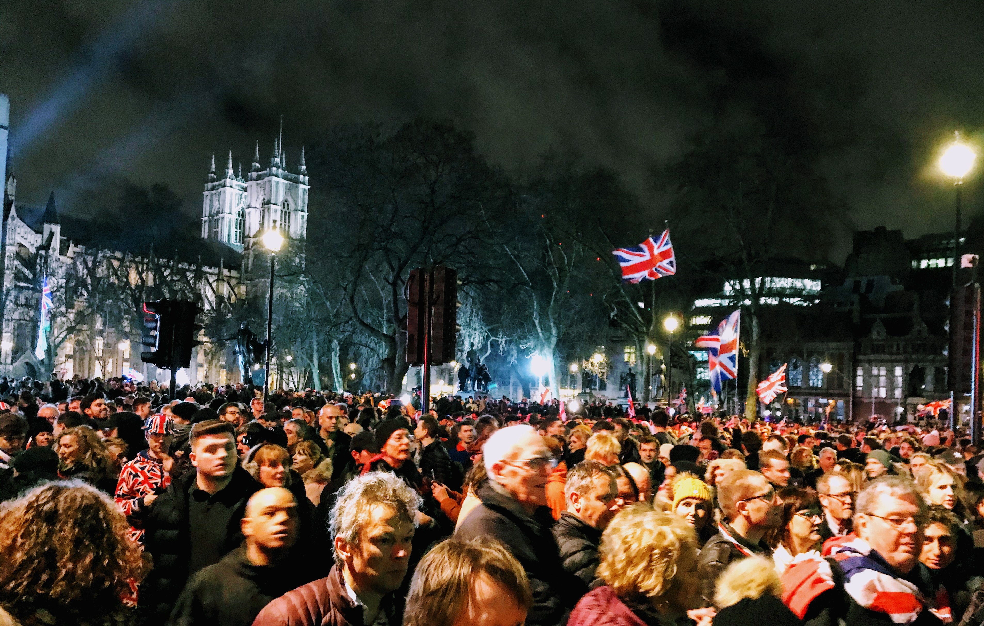 Brexit crowds in Parliament Square